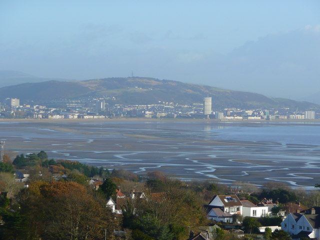 Swansea Bay from The Mumbles Looking east to the industry and new apartment blocks of East Swansea.